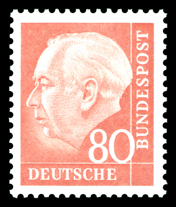 Stamp series of Theodor Heuss, president of Germany